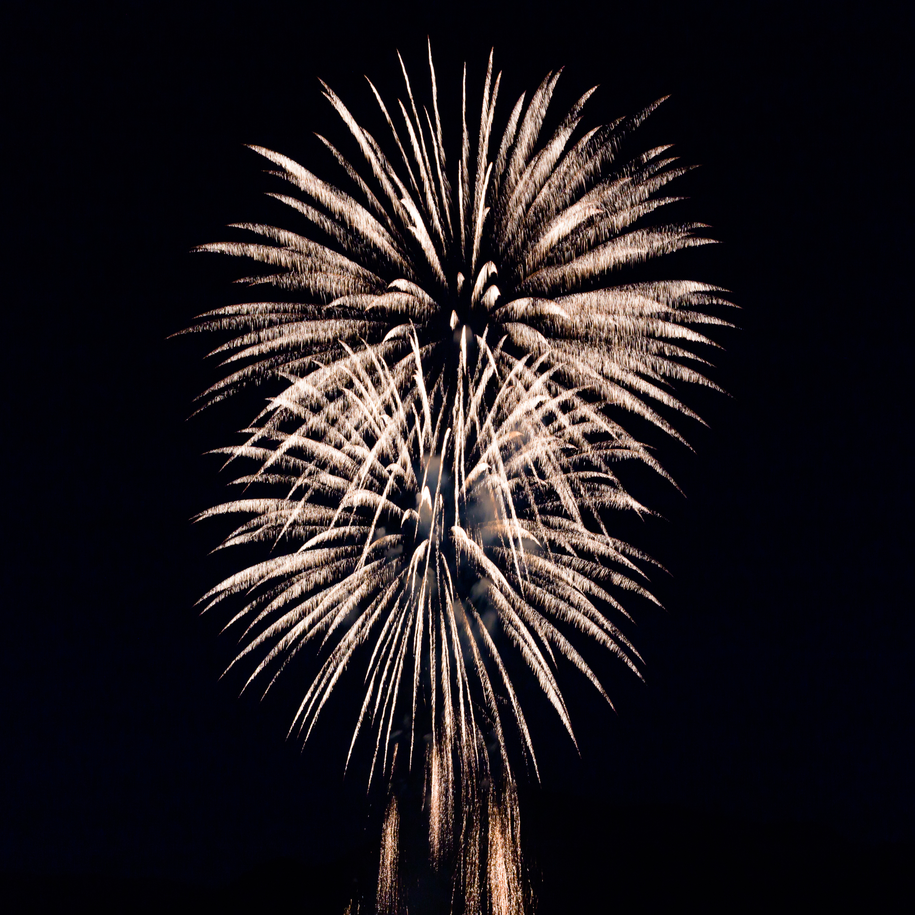 Fireworks in Annecy, France.